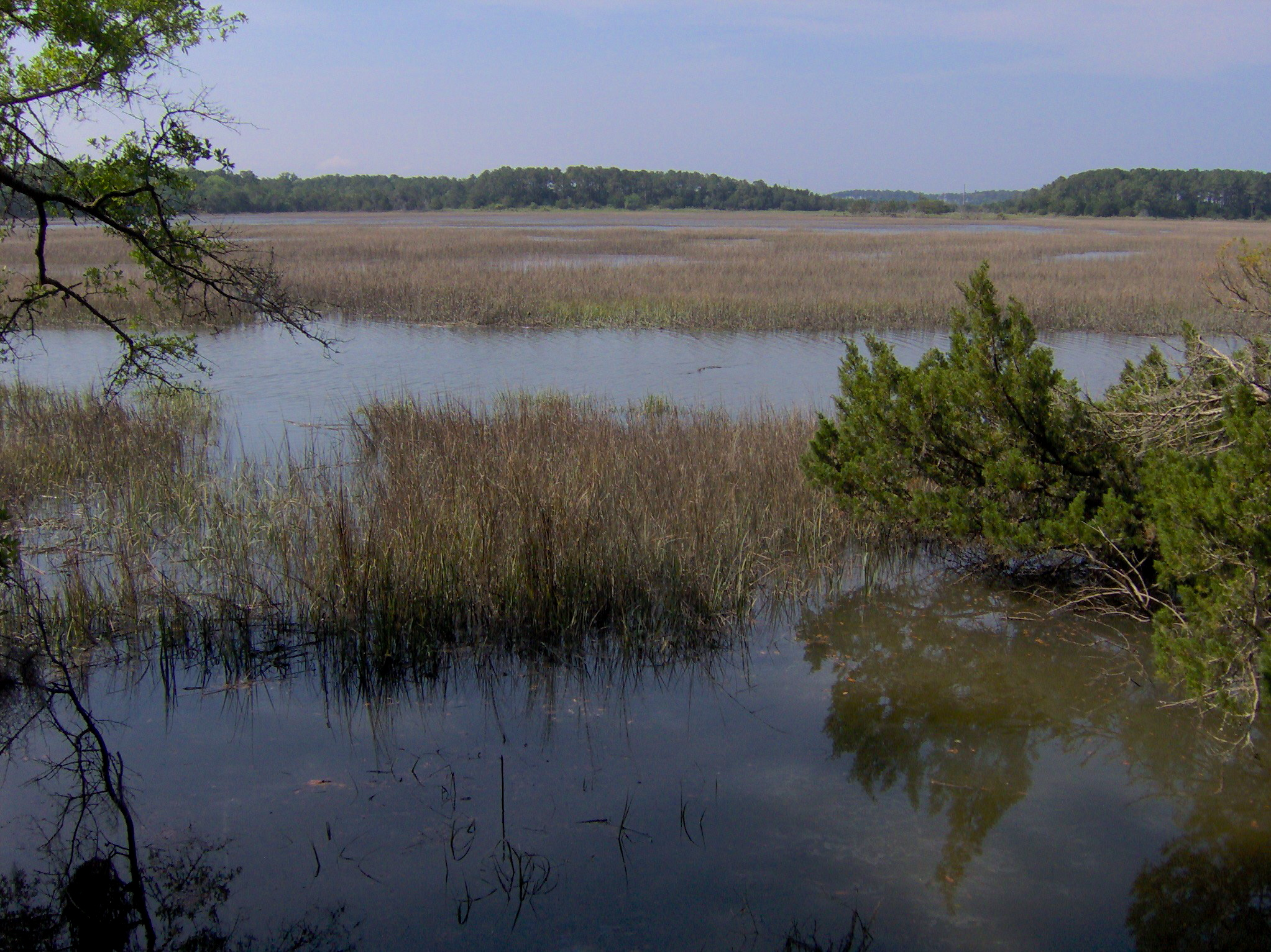 Jones Marsh, viewed from the Wormsloe Historic Site near Savannah, Georgia, in the southeastern United States. Long Island spans most of the horizon, although part of Skidaway Island is visible through a break in the treeline in the top-right. In colonial times, the Skidaway River flowed through this channel (it now flows between Long Island and Skidaway Island), placing Wormsloe in a strategic position along Georgia's intracoastal waterway.